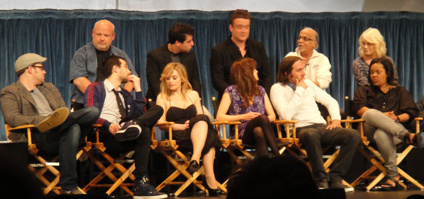 PaleyFest 2011 - Undeclared Reunion - Monica Keena as Rachel Lindquist